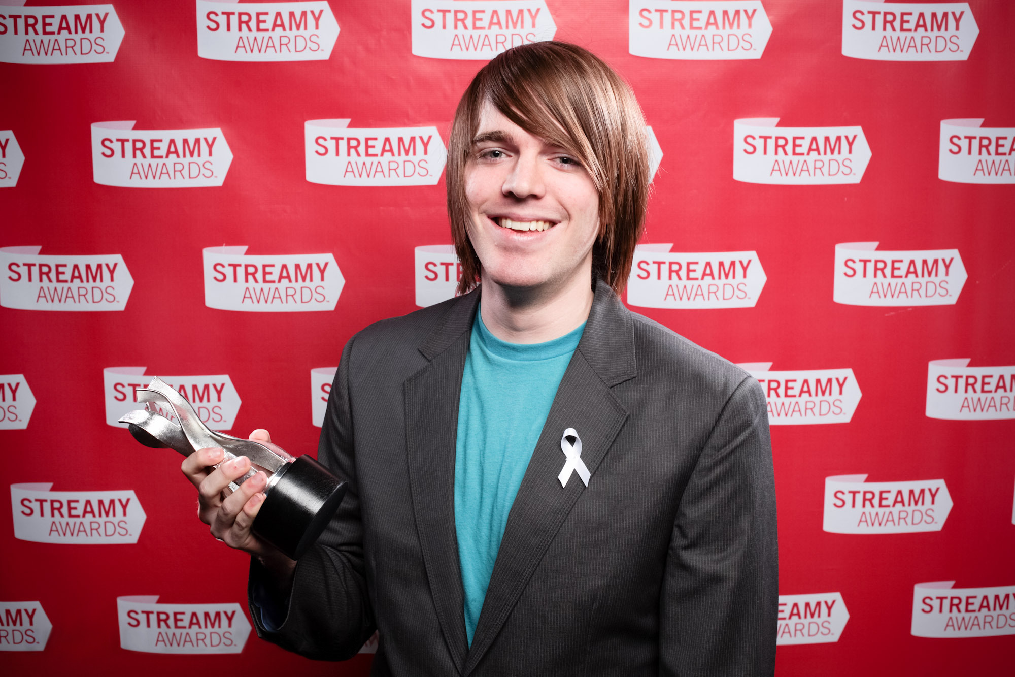 Thanks for viewing the official Streamy Awards photos! The exclusive photos of the winners and presenters are here. You don't want to miss those! We could not have done this without our awesome team of associate photographers: Bonny Pierzina Gabriel Ryan Laura Kearse Joe Philipson Kevin Calumpit Luis Miguel Munoz-Najar Actually, without our production team we could not have done this either: Josh Allard Megan Chrisofferson Mark Bealo Scott Kearse Thanks so much everyone for your hard work, and thanks so much Streamy Awards for using us again for the official photography! Please feel free to use these photos under a Creative Commons Attribution license (which means you may use the photos as long as you attribute the photos to and provide a link back to ) You can learn more about the Sreamy Awards by visiting Also, you can learn more about these photos by visiting our website with our favorite Streamy Awards photos.